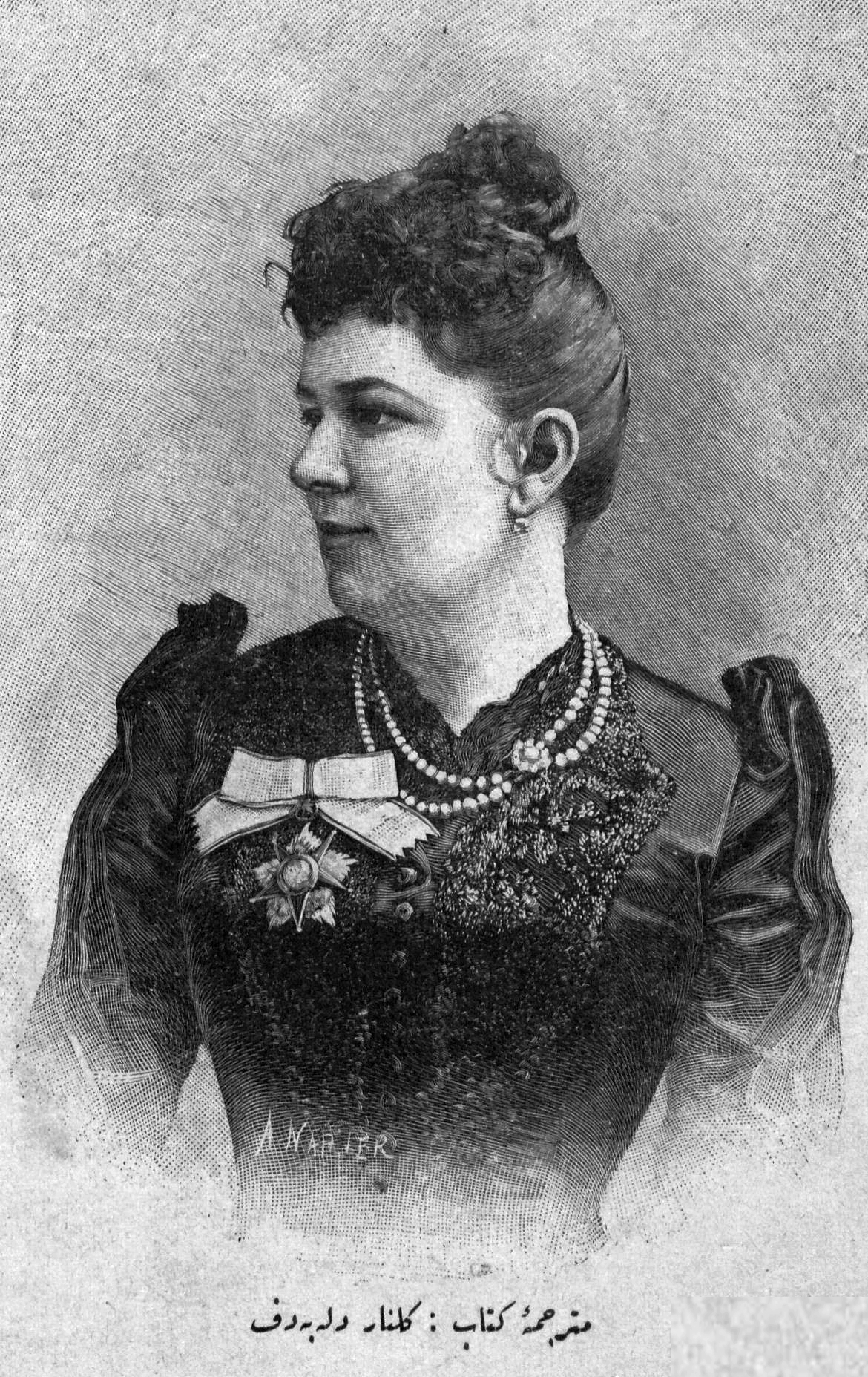 Portrait of Olga Sergeyevna Lebedeva